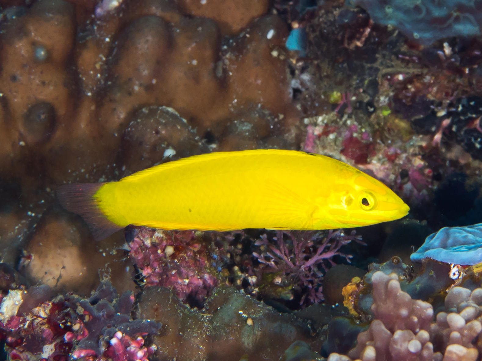 Morotai, Indonesia - Canary wrasse (Halichoeres chrysus)